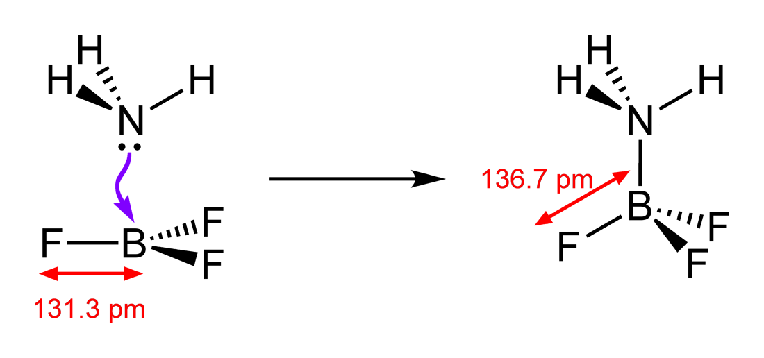 Scheme illustrating the lengthening of B-F bonds as ammonia forms a Lewis adduct with boron trifluoride. Modified to not include the formal charges of the original. Based on discussion in Inorg. Chem., 1997, 36 (14), 3022–3030, which takes its structural data from J. Chem. Soc., Chem. Commun., 1995, 113-114.